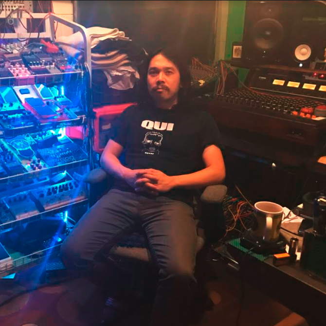 Photo of Toshi Kasai in his studio, soundofsirens